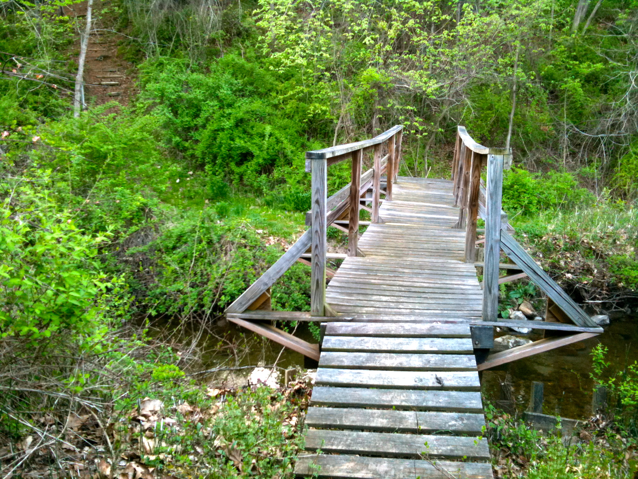 Housatonic Range Blue-Blazed Trail. Blue-Blazed CFPA linear foot path from Candlewood Mountain in New Milford and to Gaylordsville Cemetary in Gaylordsville. Housatonic Range CFPA Blue-Blazed Trail in New Milford. Housatonic Range Trail foot bridge near northern terminus.